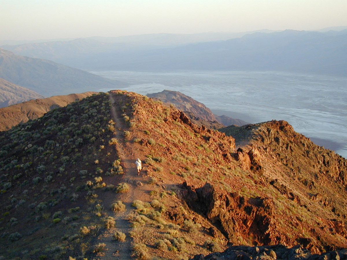 Looking south along the ridge of the Black Mountains at Dante's View.